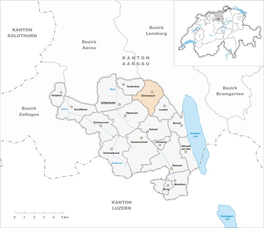 Municipality Dürrenäsch